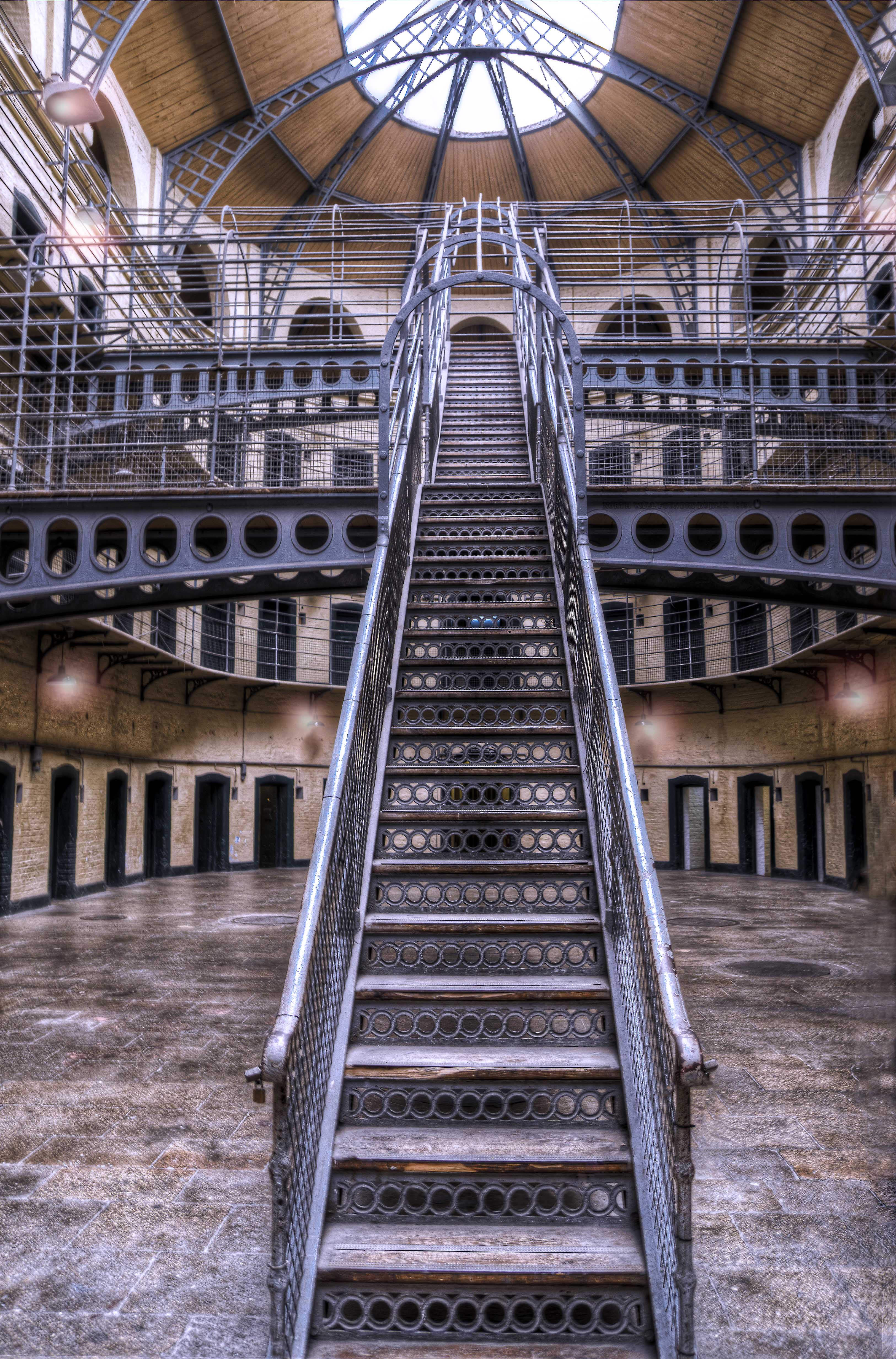 Kilmainham Gaol Prison